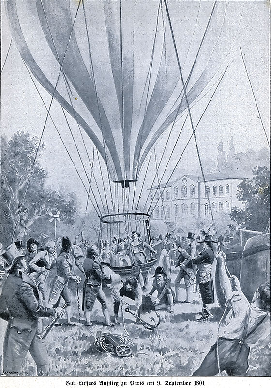 Gay-Lussac balloon ascent